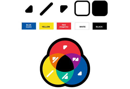 the coloradd basic code